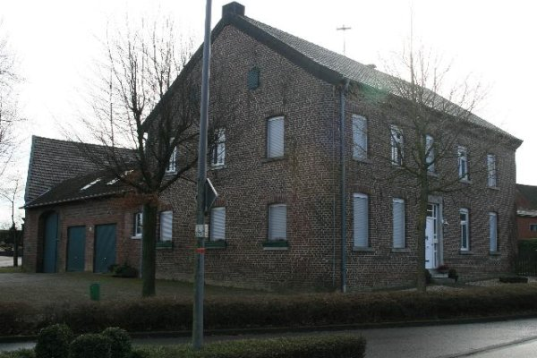 Cultural heritage monument No. 41 in Gangelt